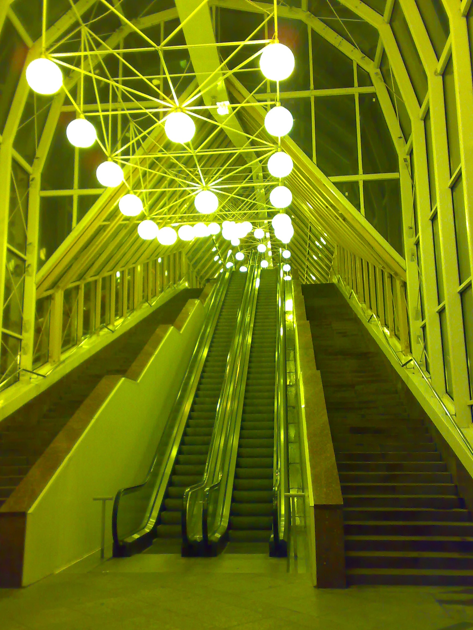 too this image using my mobile on 27 August 2008. Escalators in the glass vestibule of Bogdan Khmelnitsky Bridge in Moscow, Russia, northern exit.